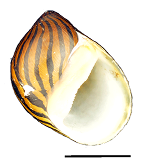 Photo of an apertural view of a shell of Neritina turrita, synonym: Vittina turrita. Scale bar is 10 mm.